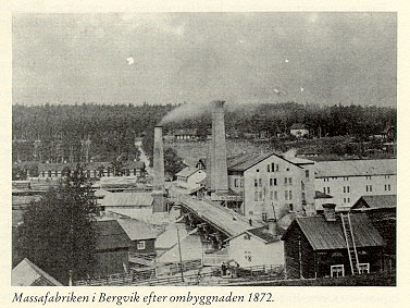 Photo of the Bergvik paper pulp factory in 1872